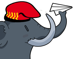 Mastodon logo modified for the mastodont.cat instance